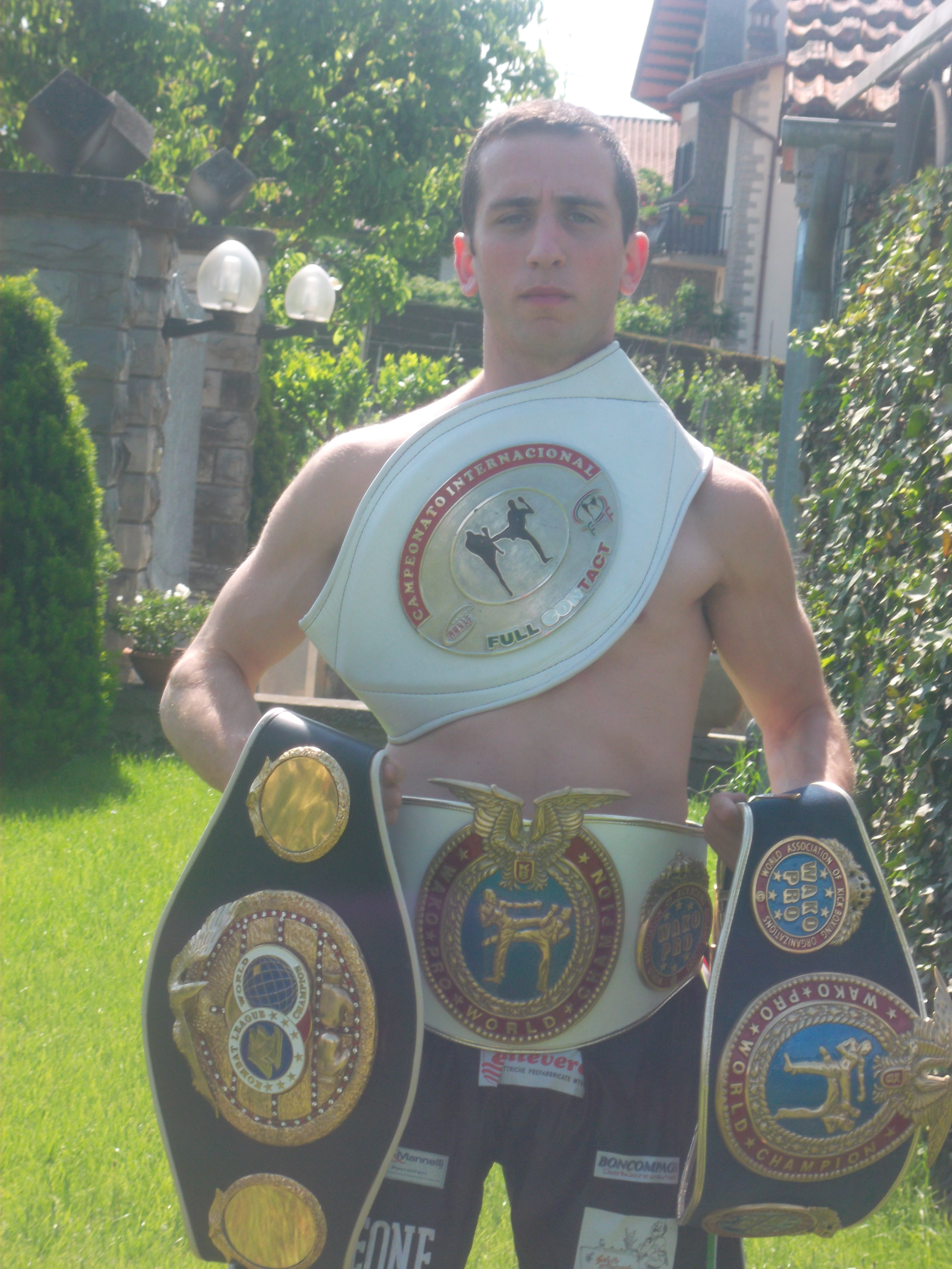 My Hundsband in the garden with his four kickboxing belt